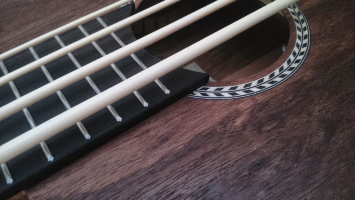 Bass ukulele strings